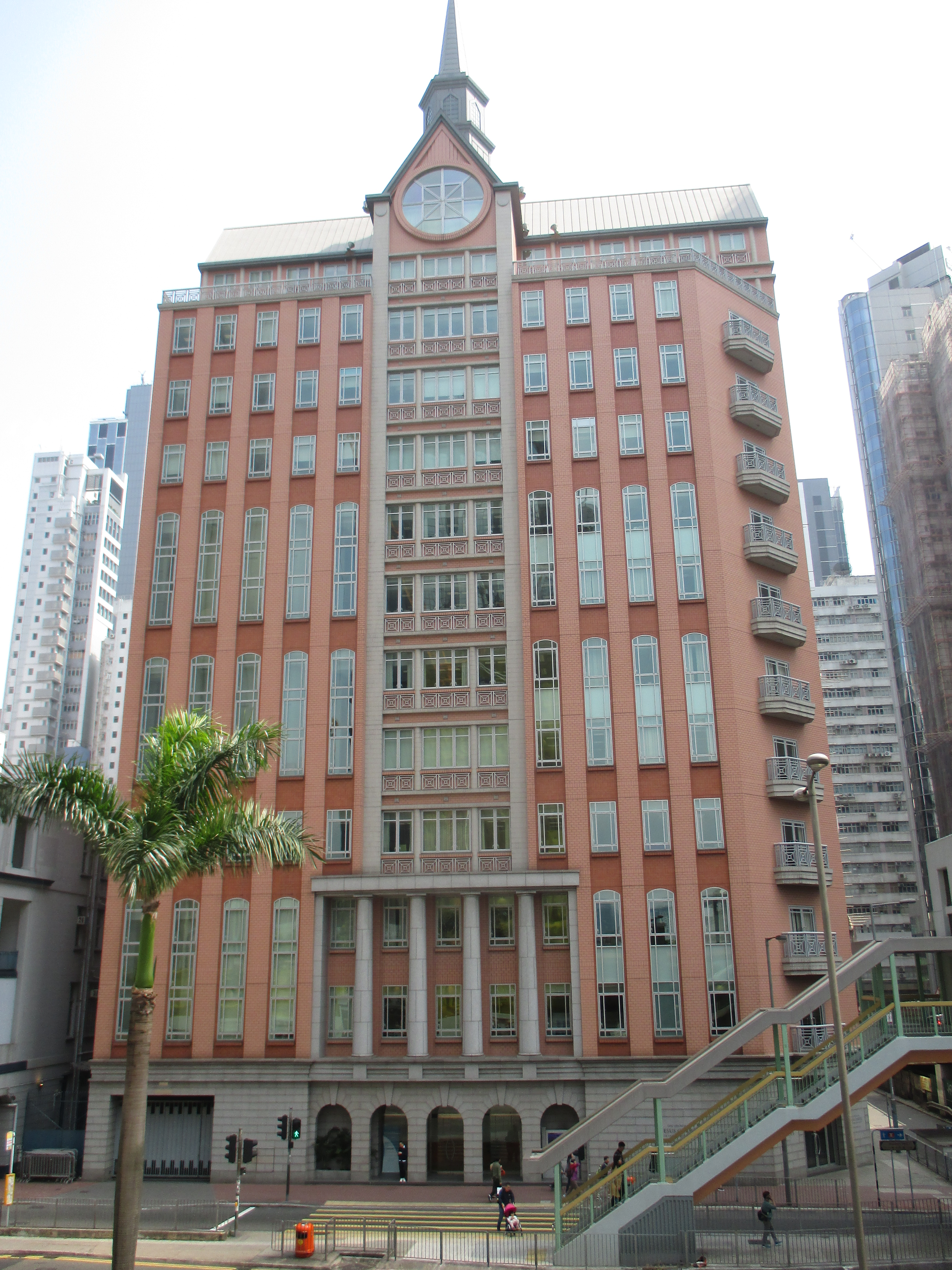 Wanchai Meetinghouse, Hong Kong